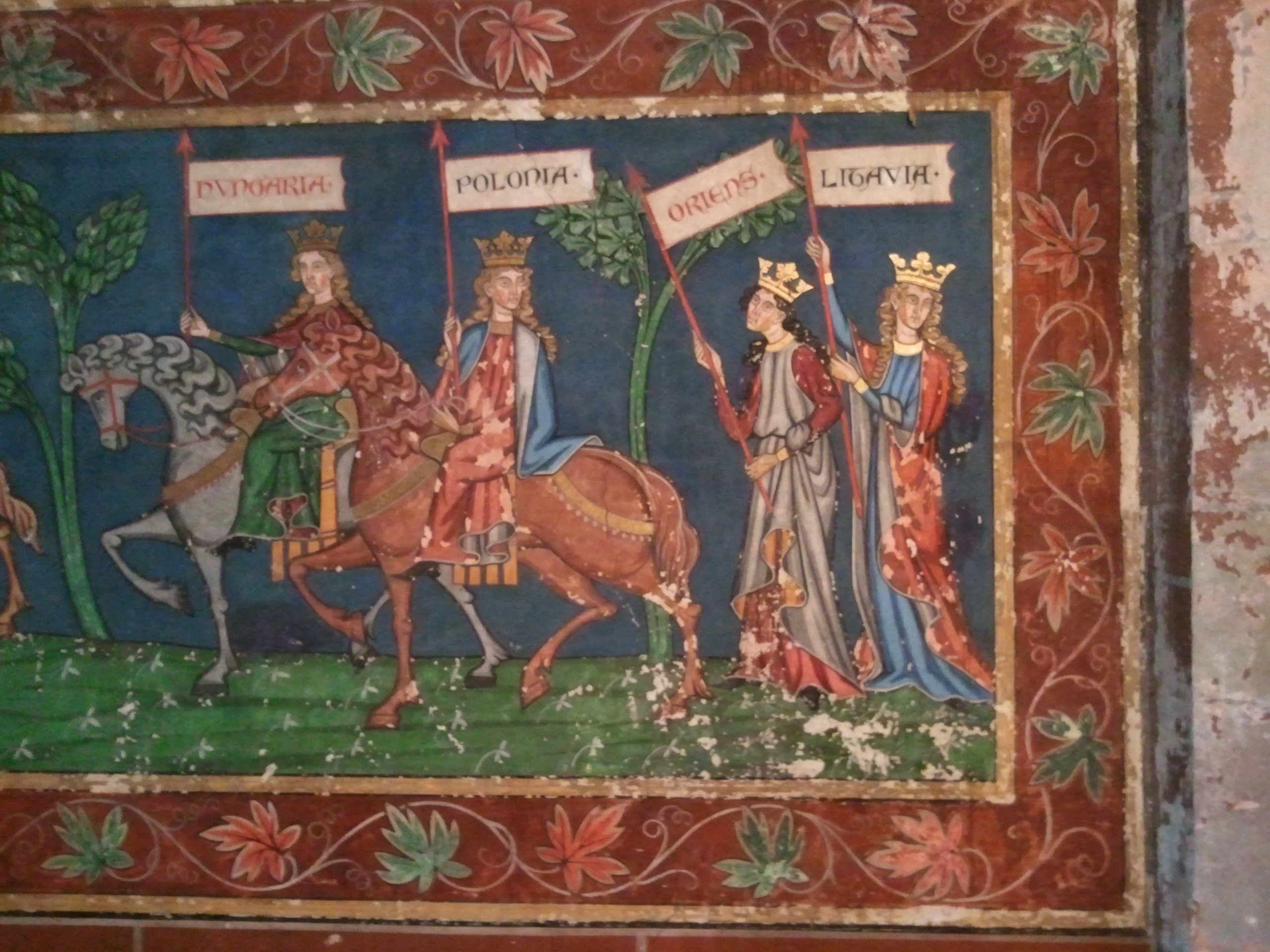 One piece of the 14-15th century fresco from Saint-Pierre-le-Jeune in Strasbourg. Fresco demonstrates Europe’s states marching towards the Christianity. Fresco holds 15 figures, portraying states, which converted to Christianity by the chronological order, first of them is Holy Roman Empire, the last – Lithuania.